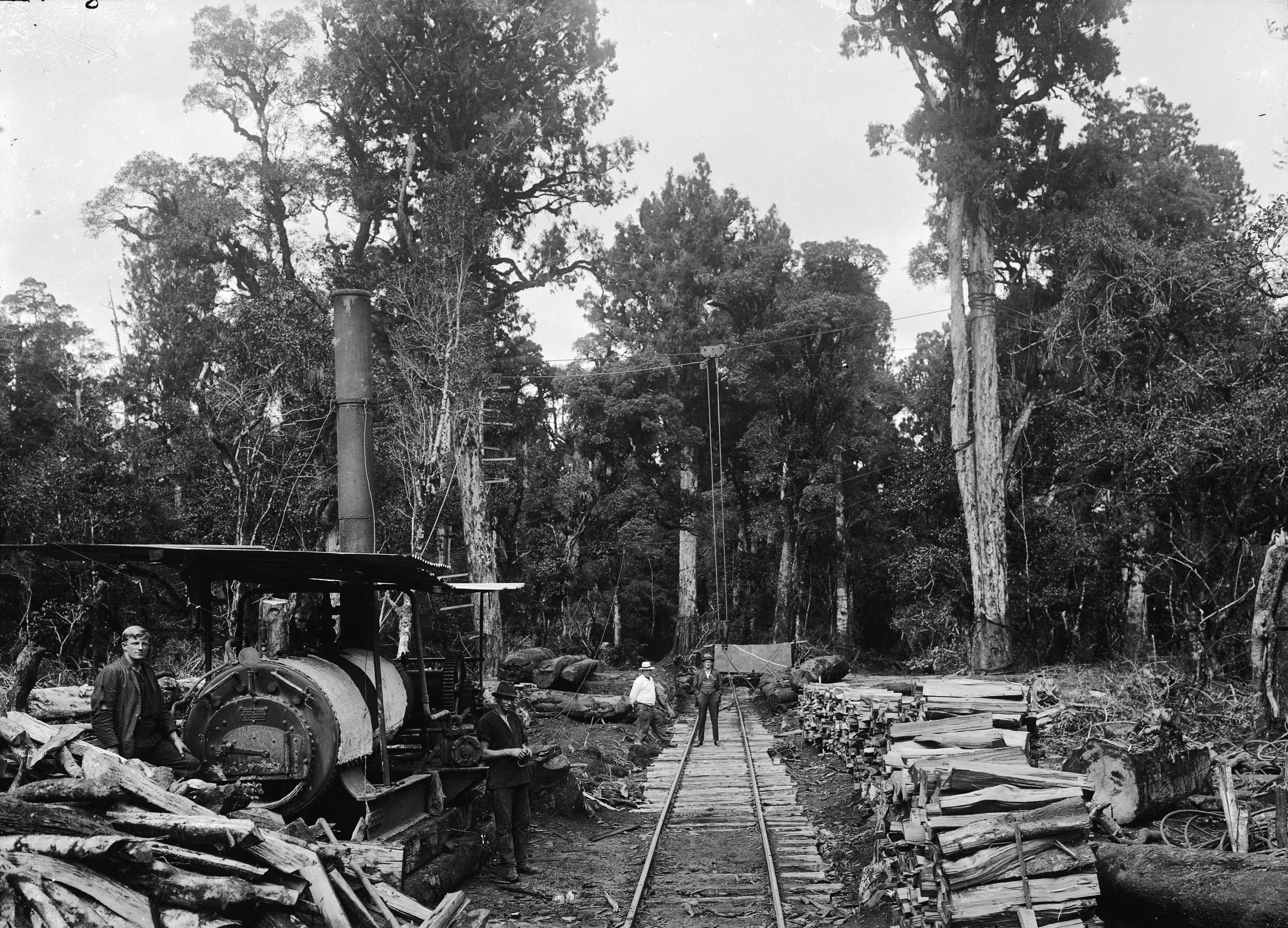 Bush scene at Erua, with stacks of split logs, bush railway lines, and a steam log hauler, photographed by Albert Percy Godber, circa 1920s. Persons unidentified.